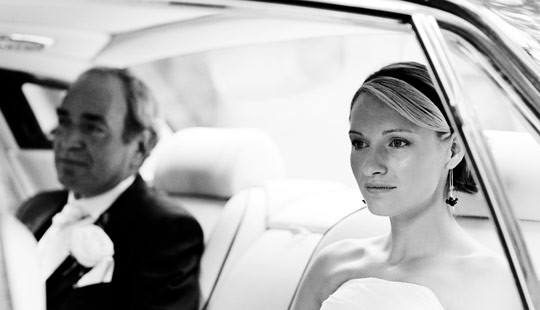 Example of a contemporary wedding picture, copyright PureLight by Sam & Glen